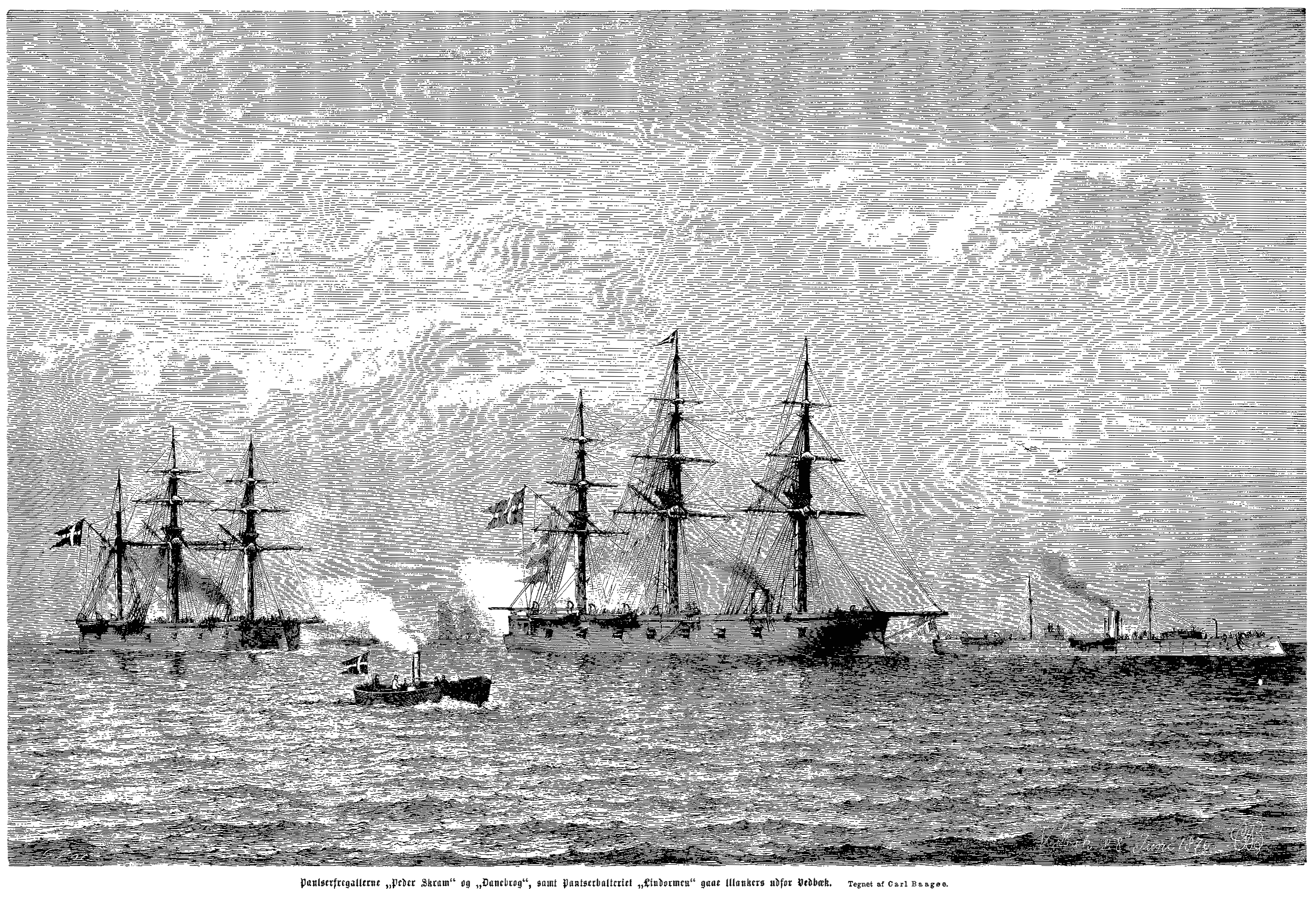 The Danish weekly Illustreret Tidende took a keen interest in the operations of the Danish Navy. The squadron of 1870 was described in the June 19, 1870 issue, accompanied by this drawing by Carl Baagøe.